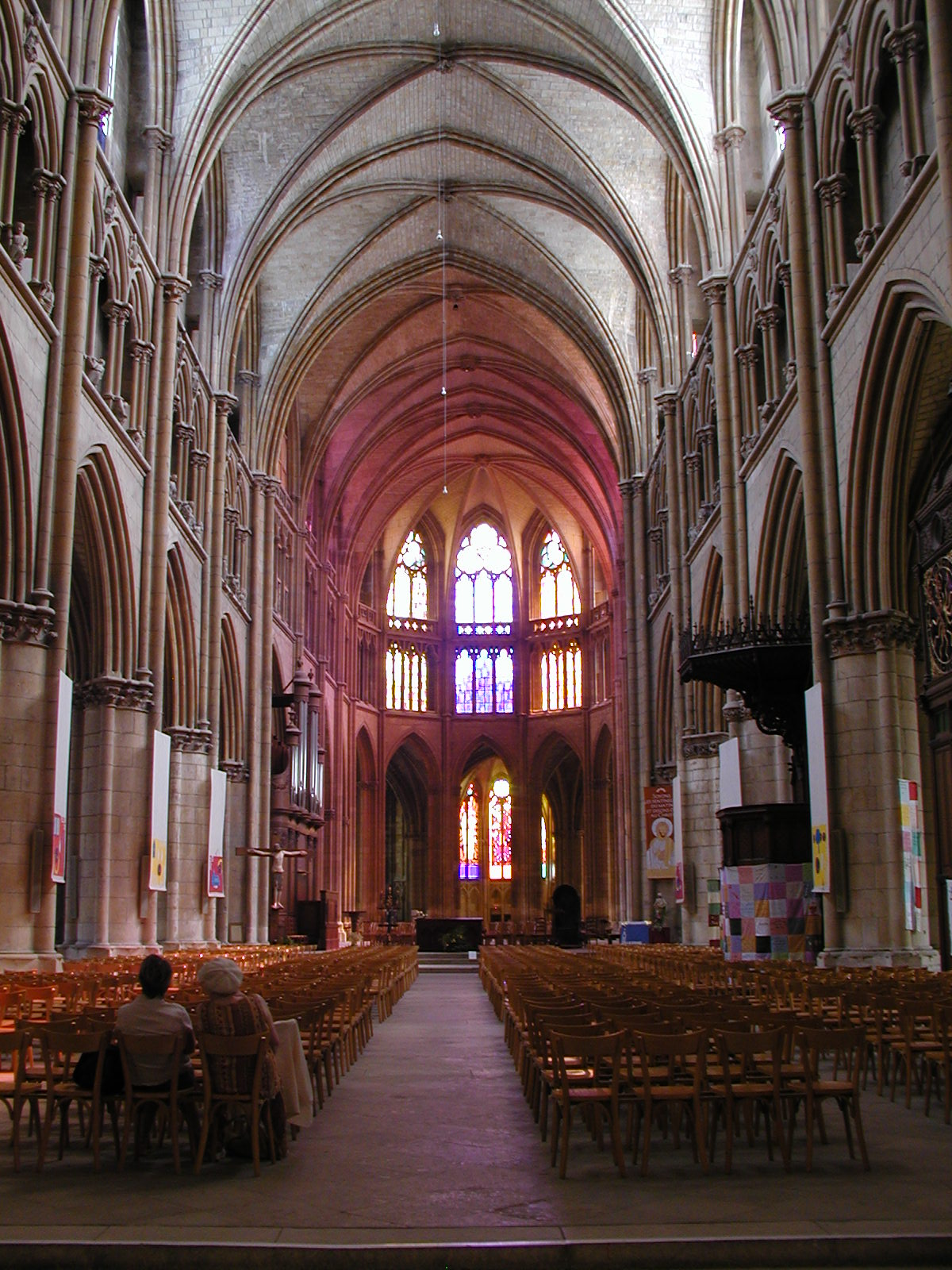 Nevers, Cathedrale, Nef